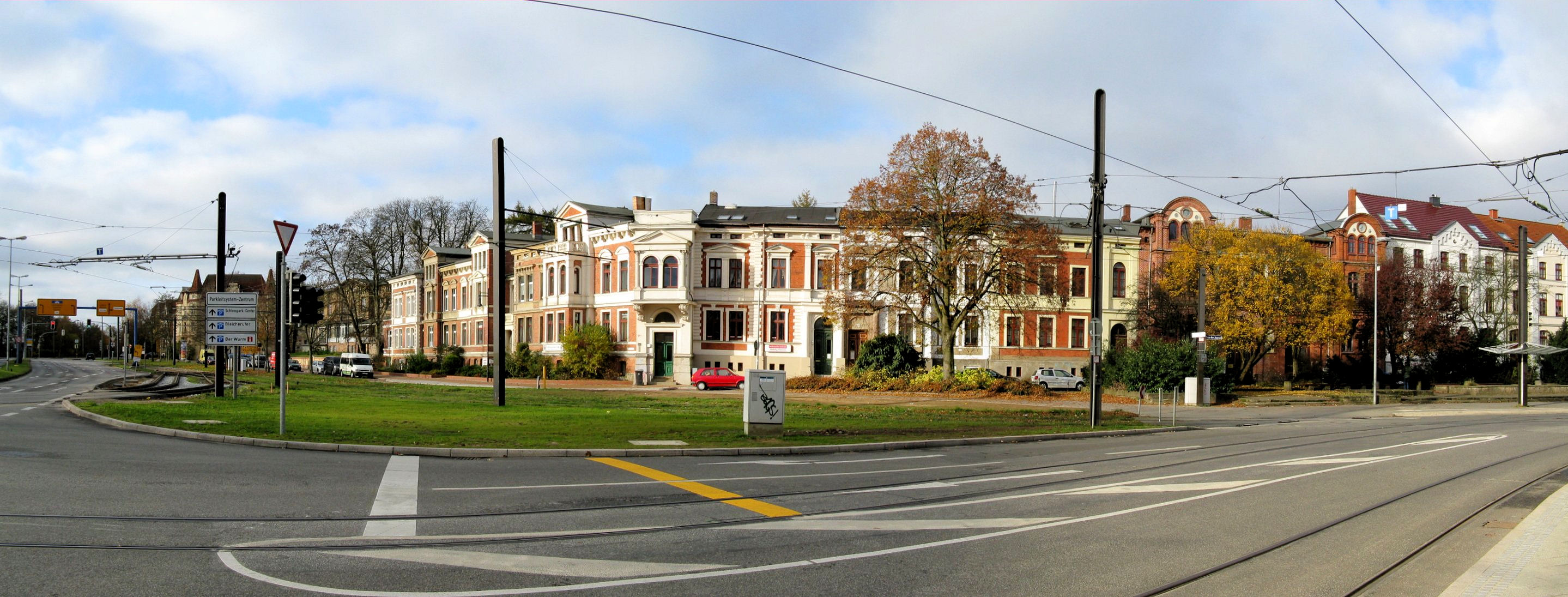 Platz der Jugend in Schwerin, Mecklenburg-Vorpommern, Germany